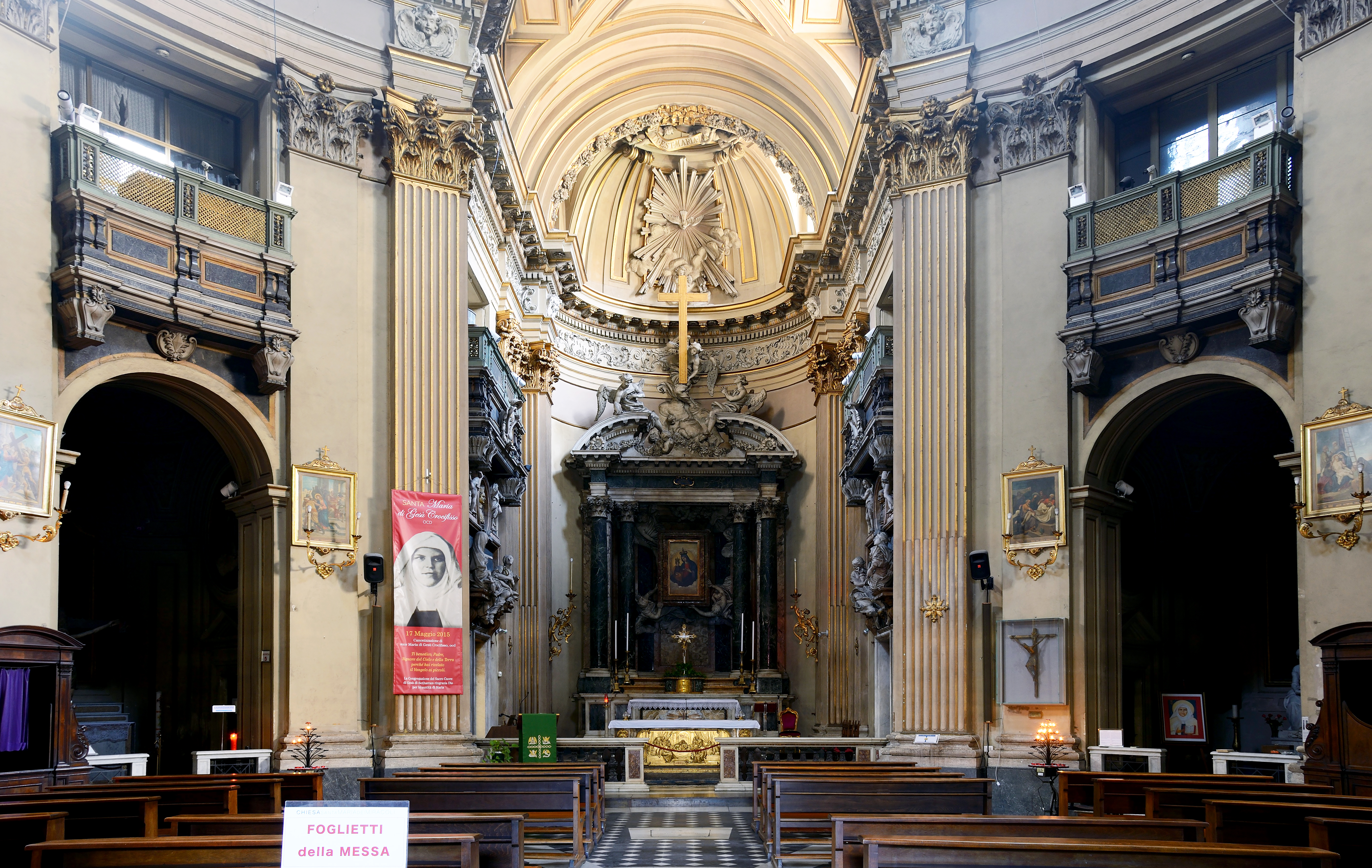 Santa Maria dei Miracoli (Rome) - Interior